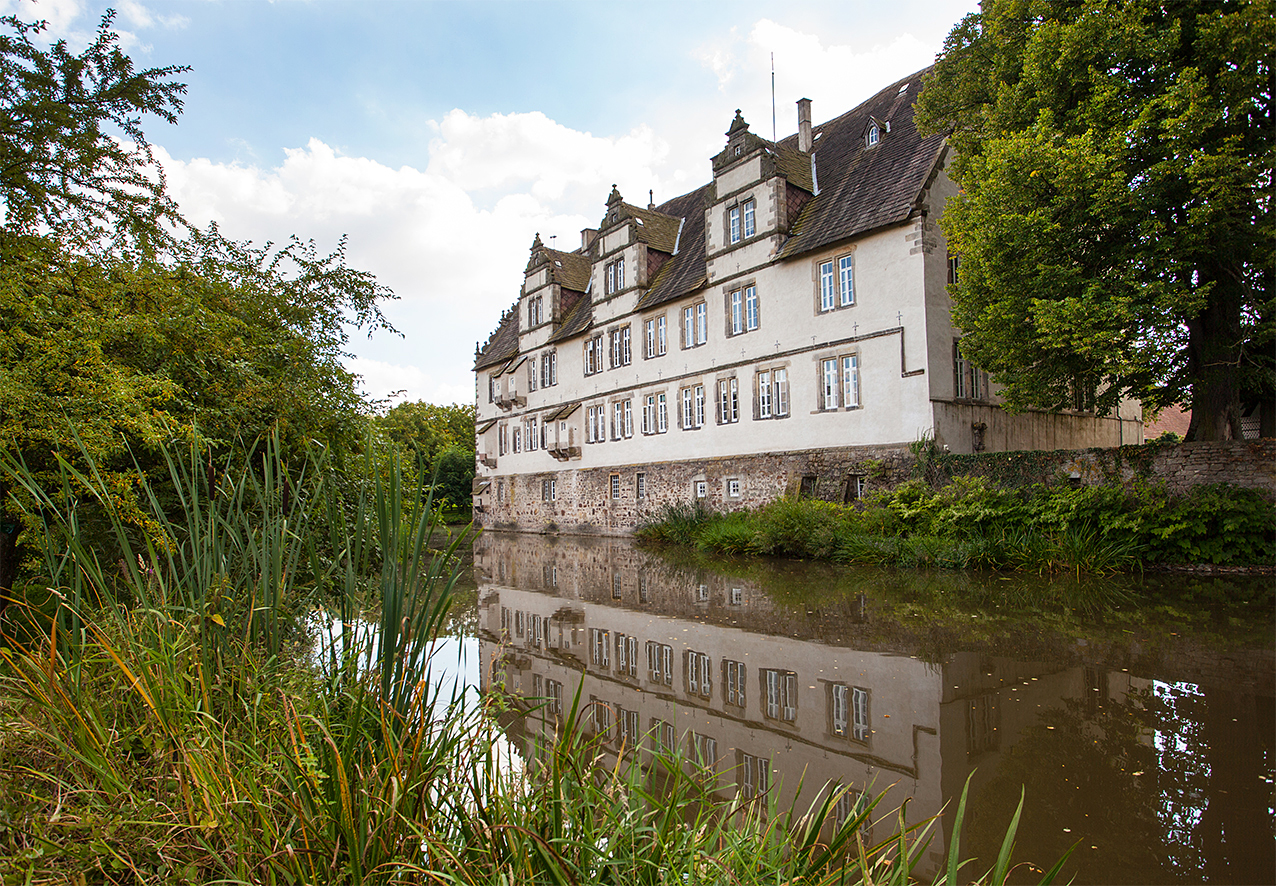 Water Castle Wendlinghausen in Lippe near Lemgo, Germany from 1613